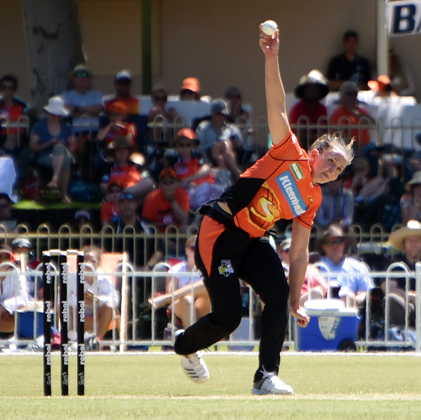 Perth Scorchers bowler Kate Cross bowling against the Sydney Thunder, in a WBBL match at Lilac Hill Park in Perth